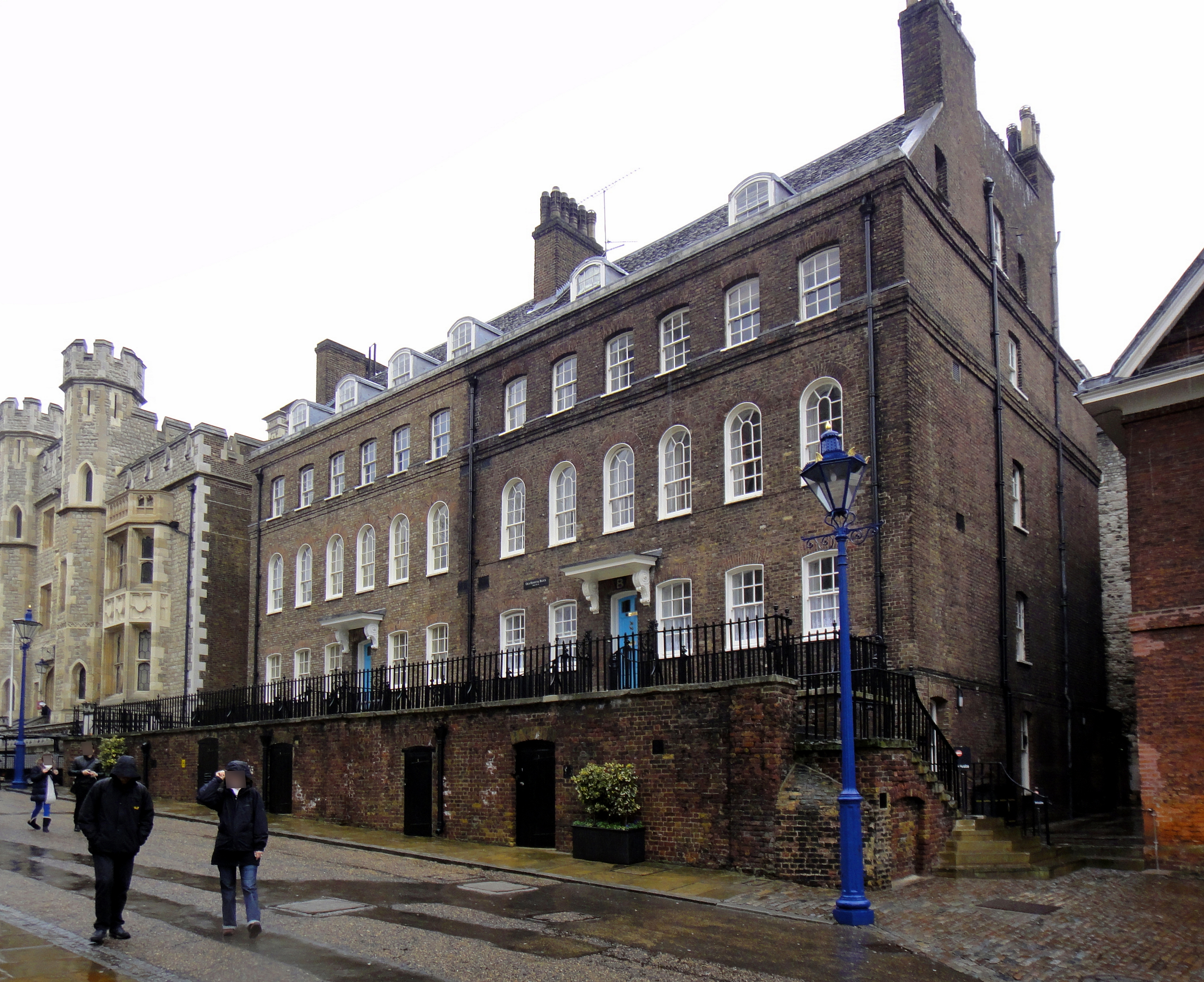 Hospital Block, Tower of London